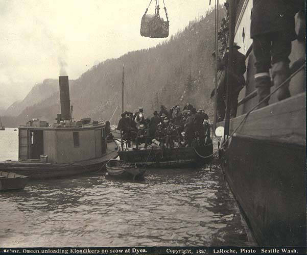 Caption on image: "Queen unloading Klondikers on scow at Dyea. c1897" Subjects (LCTGM): Ships--Alaska--Dyea Harbor Subjects (LCSH): Queen (Ship); Dyea Harbor (Alaska); Lighterage--Alaska--Dyea Harbor; Scows--Alaska--Dyea Harbor